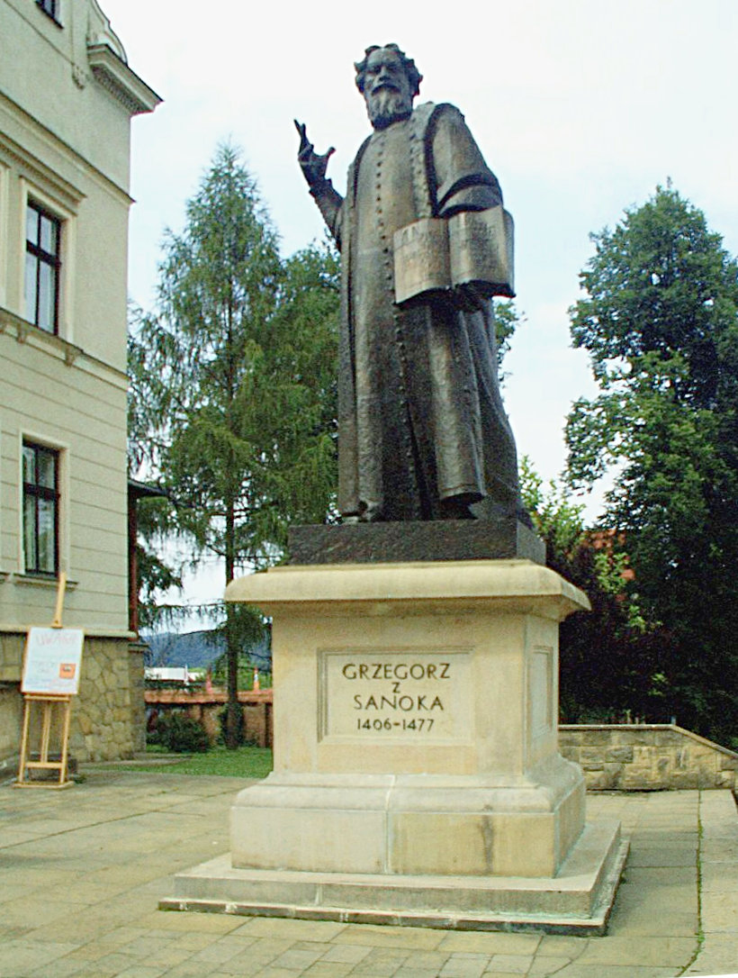 Grzegorz of Sanok - the monument in the city of Sanok